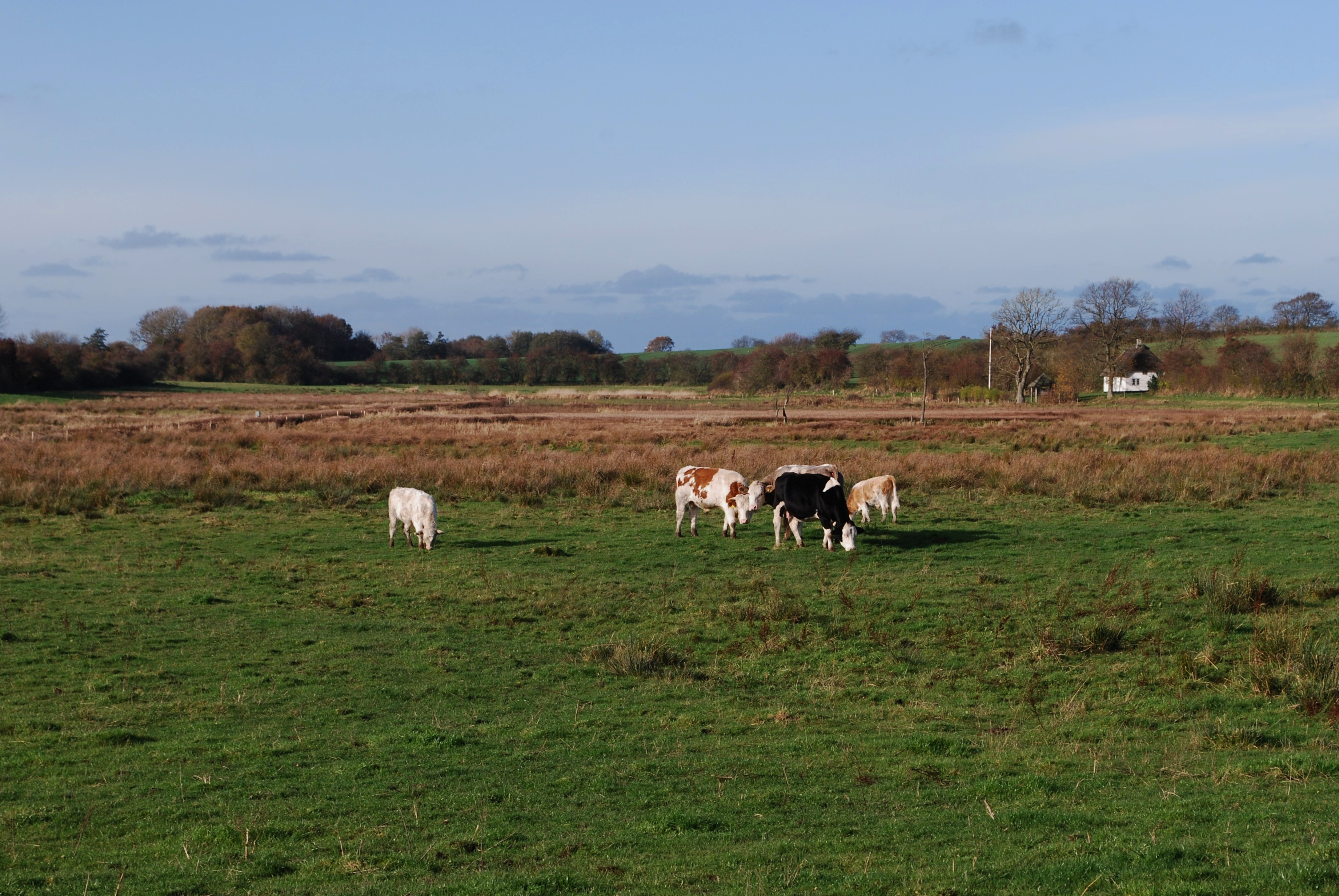 Nydam Mose ("Nydam Bog")